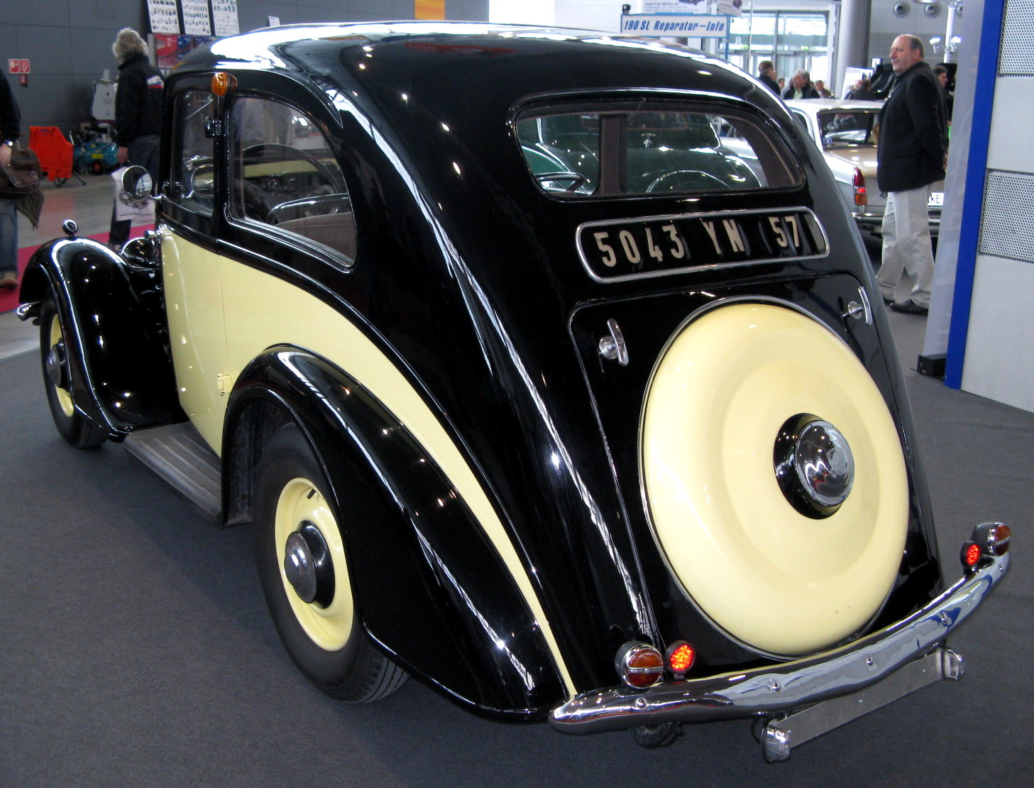 1936 Peugeot 201 Coupe DL